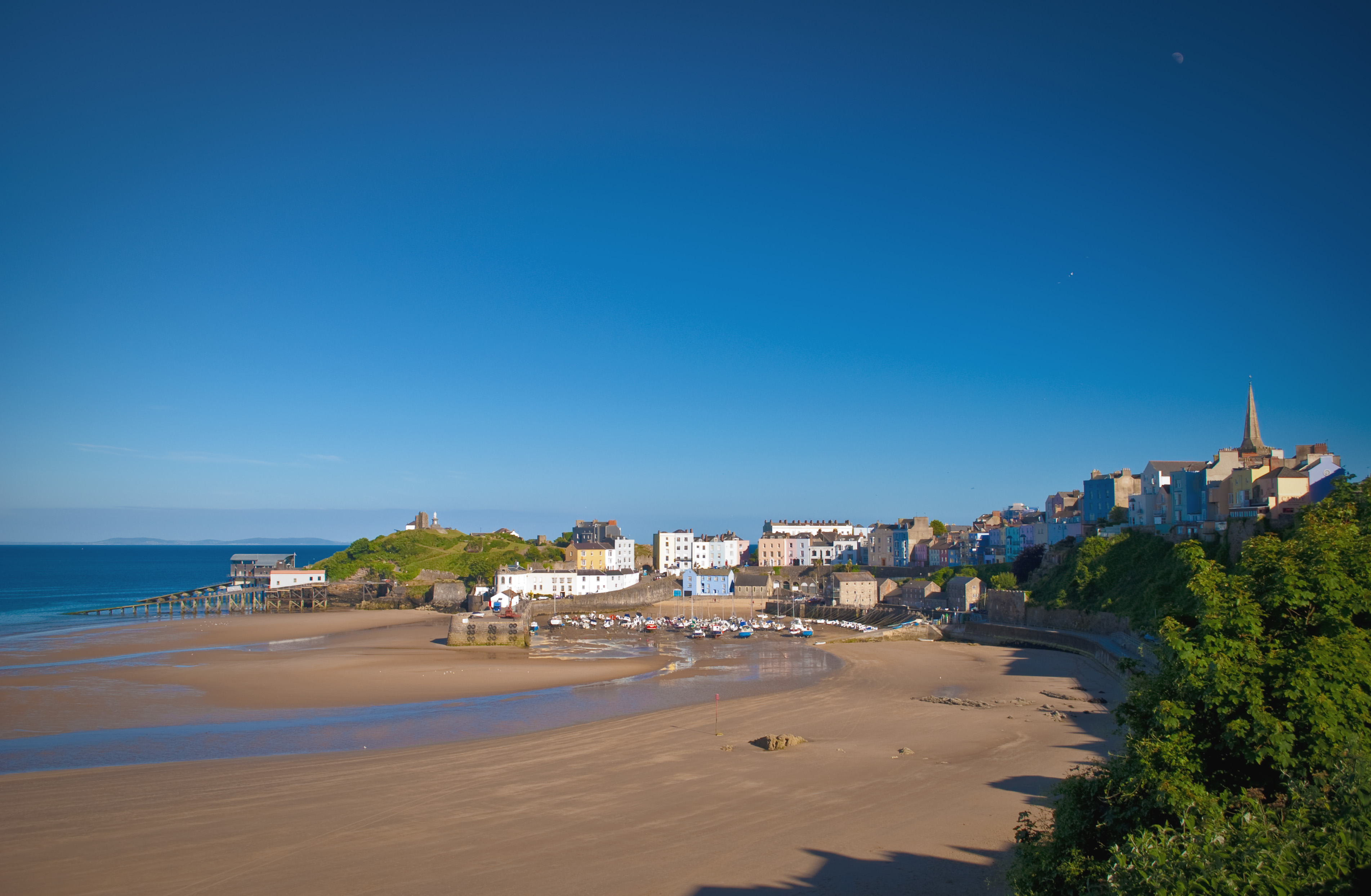 Tenby harbour in Pembrokeshire, UK